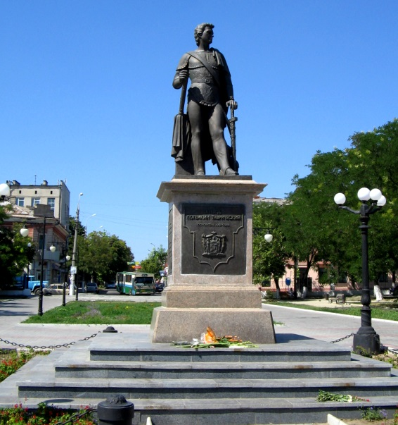 Памятник Потёмкину (Херсон) / Potyomkin Monument